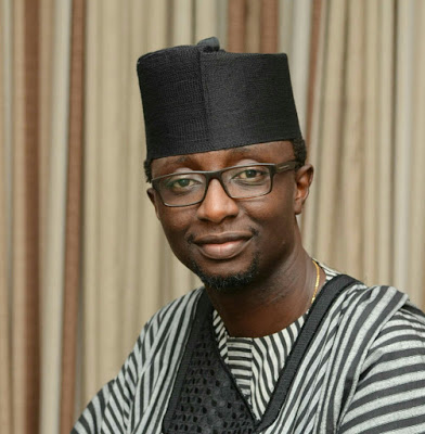 Actor Filmmaker Nollywood Film Industry Ifeanyi Humphrey Akogo Nigerian Film Industry